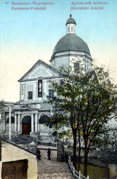 The church existed between 1767 and 1930s.